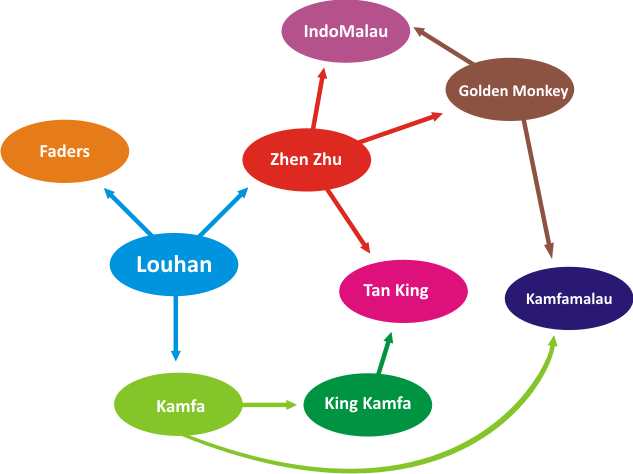 Chat of flowerhorn strains